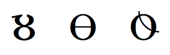 Phonetic symbols from Swedish landsmålsalfabetet for vowel ô.